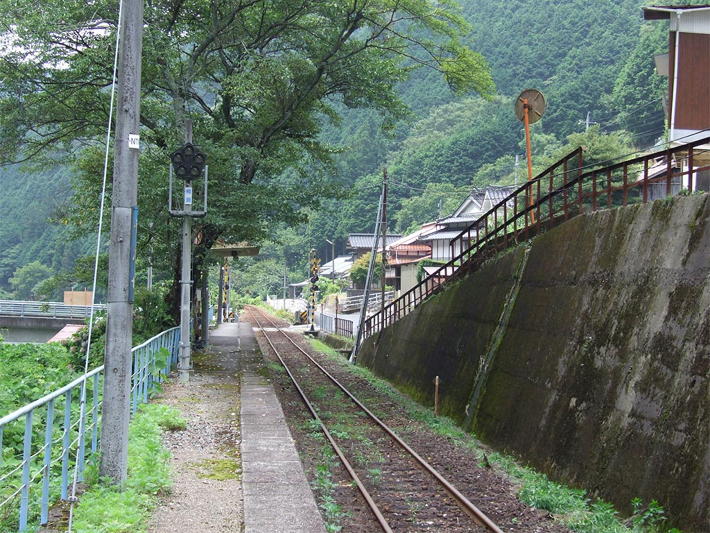 Nishikigawa railway Nishikigawa-Seiryu line. Yanaze station.